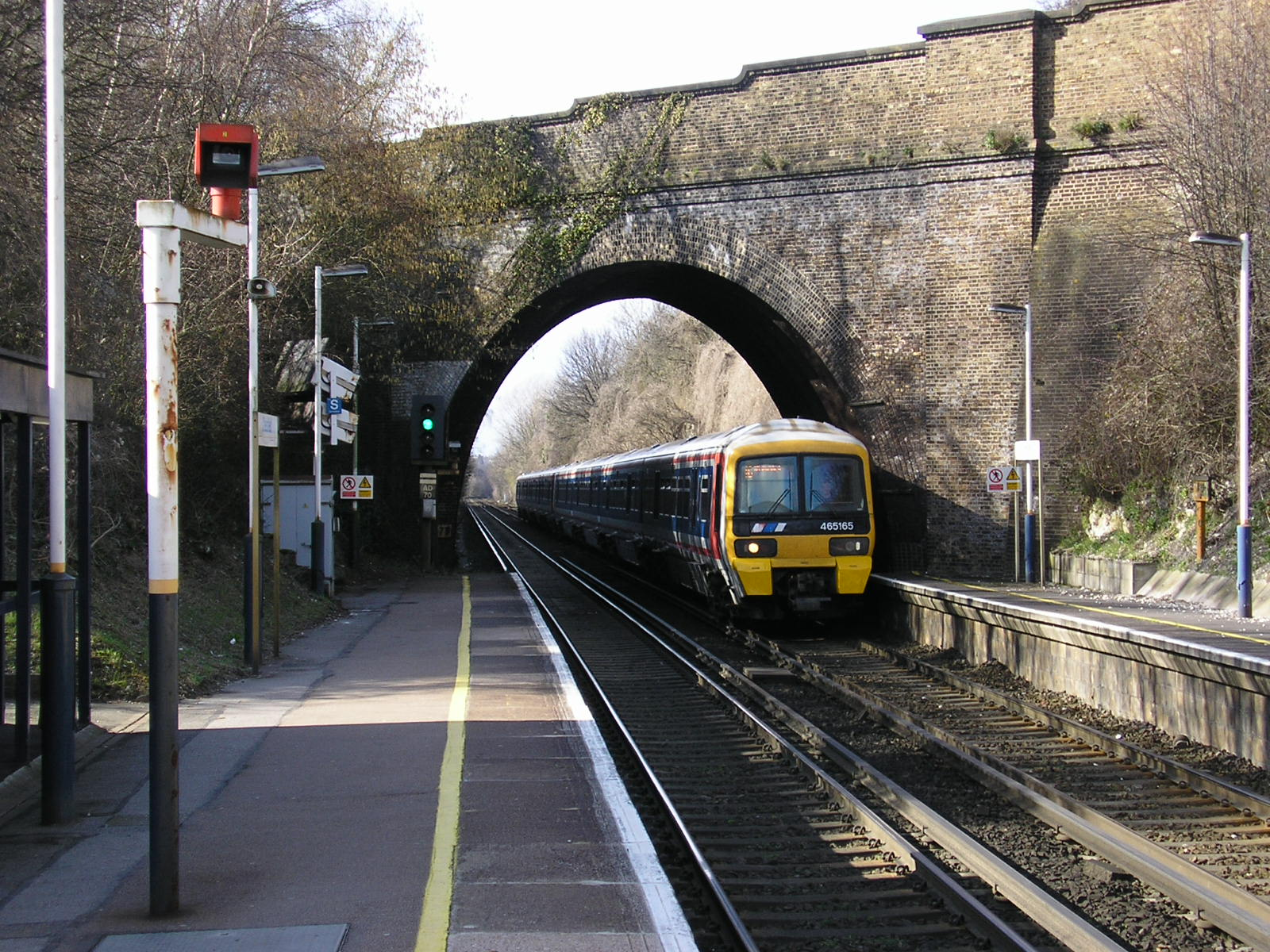 Chelsfield railway station in Bromley, Kent, England. The bridge carries Warren Road.